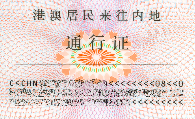 The front of China's "Home Return Permit" for Hong Kong and Macau residents. Scanned by Wrightbus.